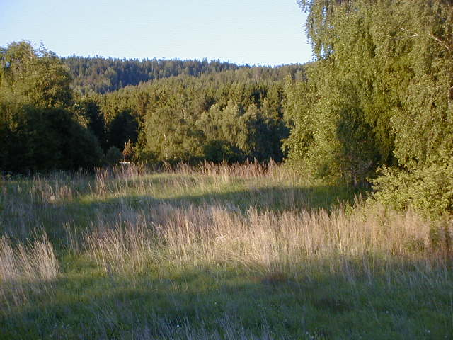 The place of the Gjermundbu find, hence the famous Gjermundbu Viking Helmet